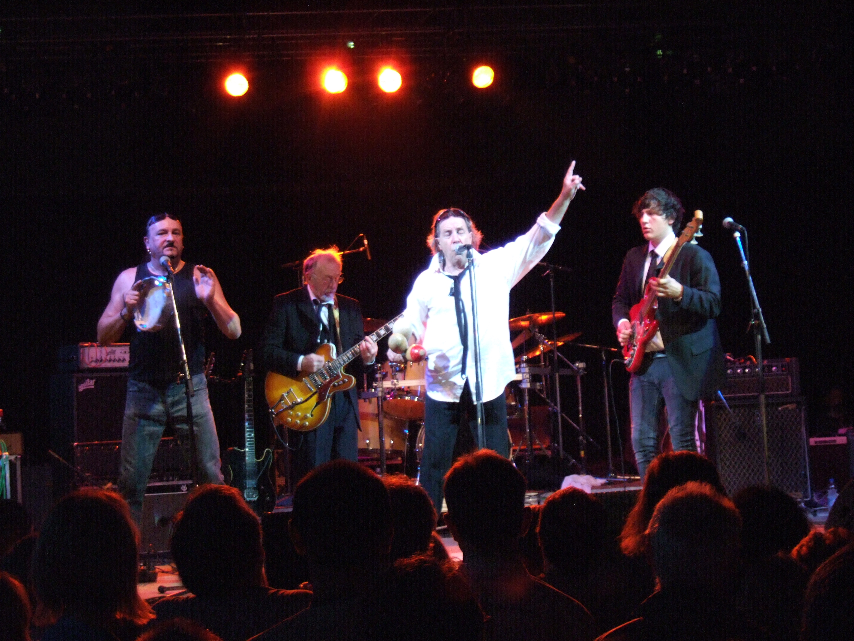 The Pretty Things Live